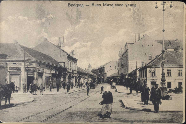 Knez Mihailova Street, Belgrade - 1900?